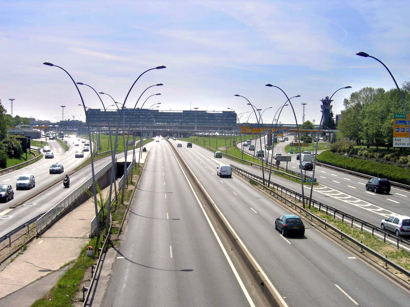 View of the south terminal of Orly Airport, the Route nationale 7, and the control tower